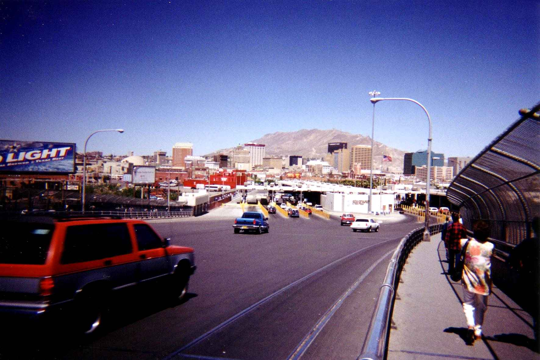 El Paso PDN Port of Entry